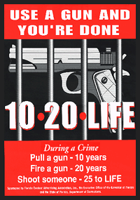 A public service announcement poster about the 10-20-Life Florida law.